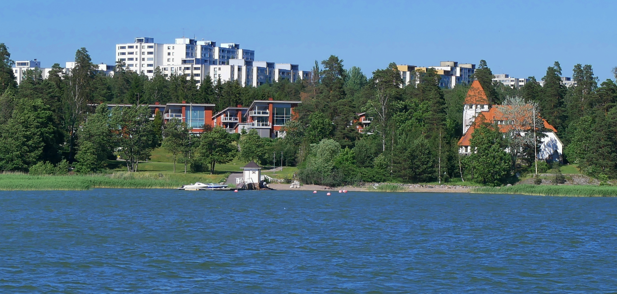 Summertime view of Soukka, Espoo, Finland. The building at the right end of the picture is called Villa Miniato.